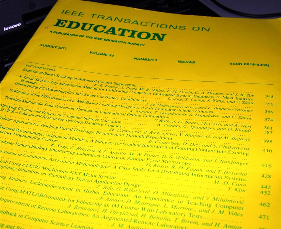 Cover of the IEEE Transactions on Education